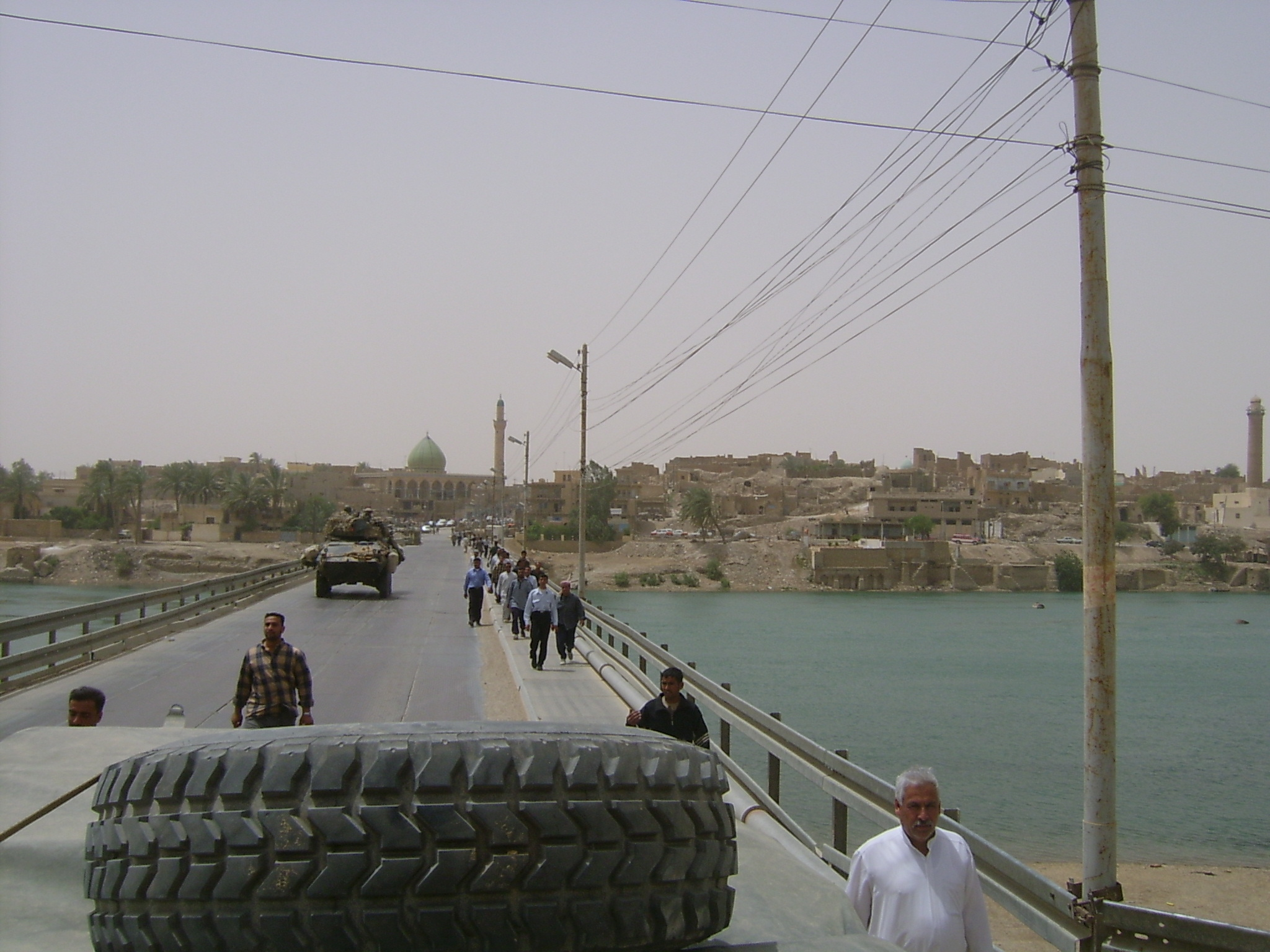 Hit, Iraq in 2004. As seen from a bridge over the Euphrates.